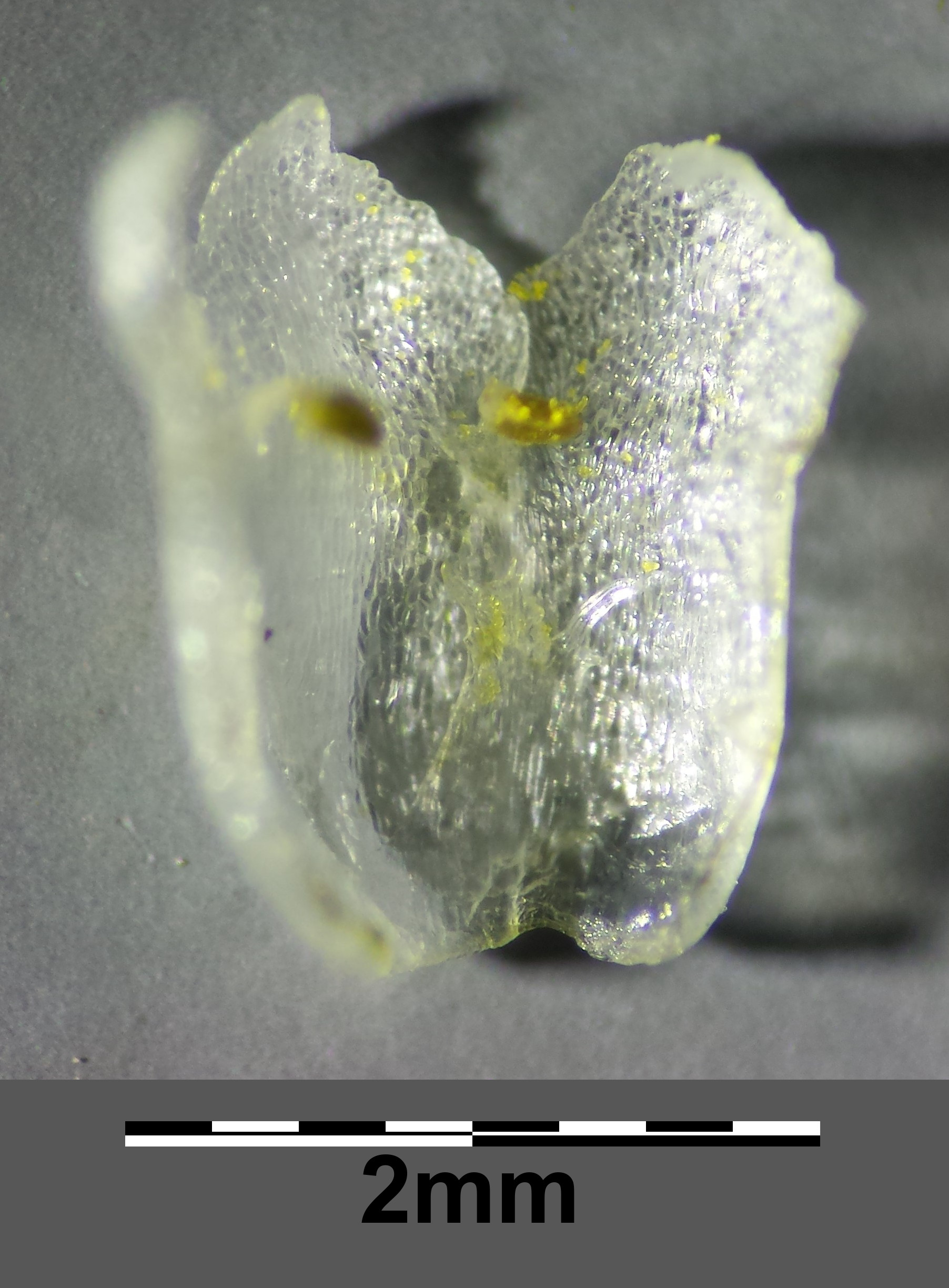 Inner side of corolla with scale Taxonym: Cuscuta europaea ss Fischer et al. EfÖLS 2008 ISBN 978-3-85474-187-9 Location: next to Harmannstein, Großschönau, district Gmünd, Lower Austria - ca. 800 m a.s.l. Habitat: wayside